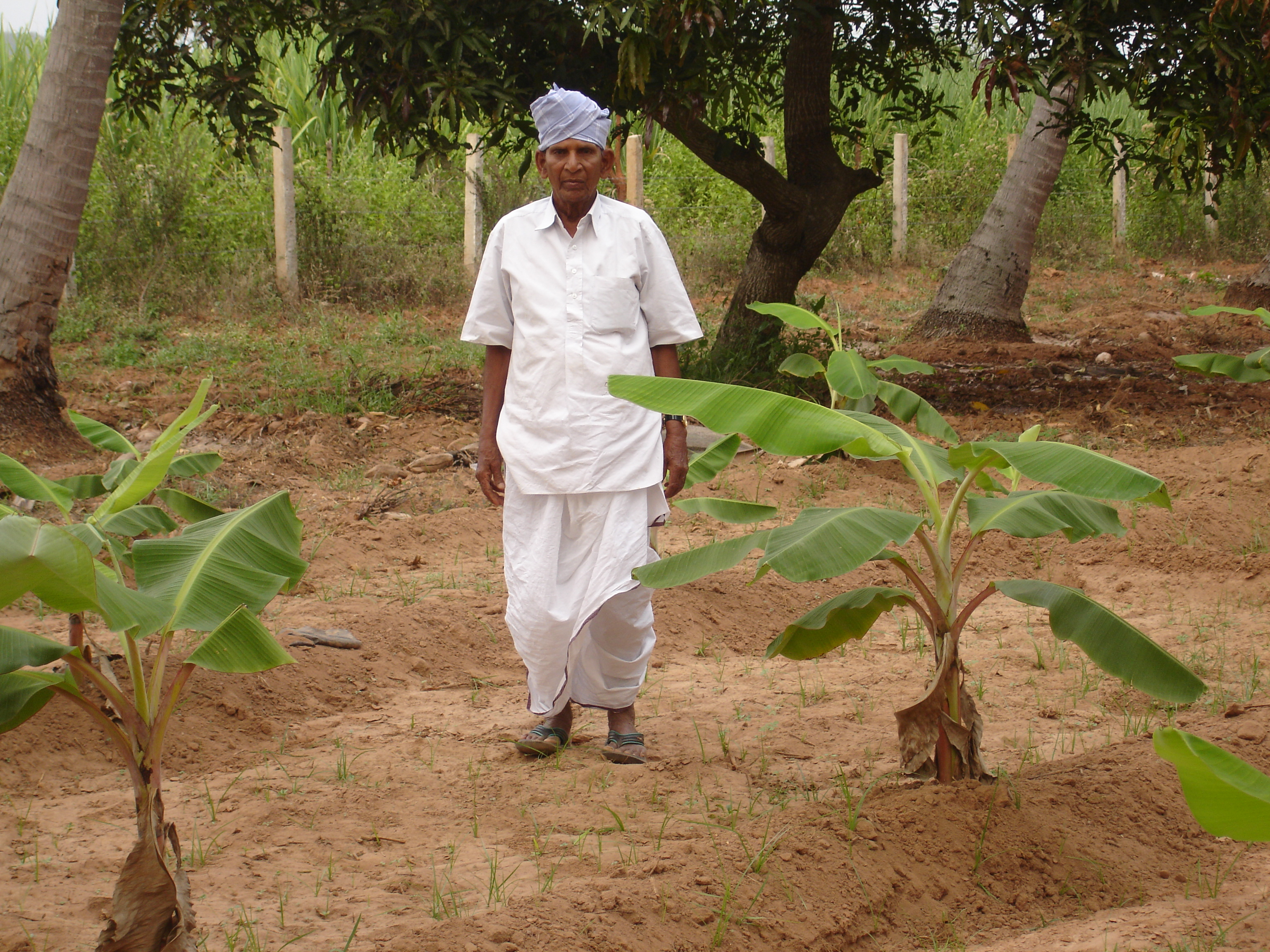 A typical farmer